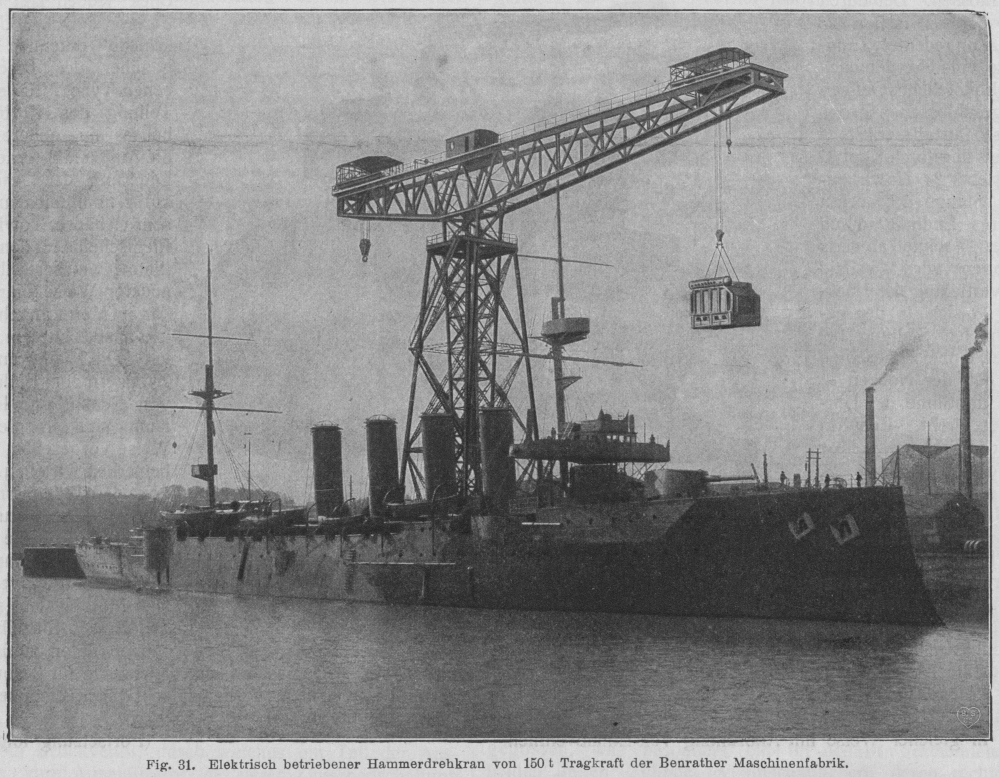 Beardmore Crane with load. Year refers to publication year of journal, no known earlier publications.